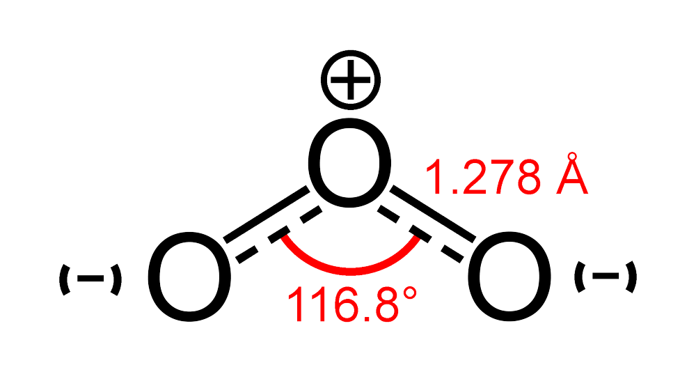 Structural formula of the ozone molecule, O3. O-O bond length of 127.8 pm (i.e. 1.278 Å) and O-O-O bond angle of 116.8° determined by microwave spectroscopy and taken from N. N. Greenwood and A. Earnshaw (1997) Chemistry of the Elements (second ed.), Butterworth-Heinemann, pp. 607-608 ISBN: 0-08-037941-9. Image generated in ChemDraw.